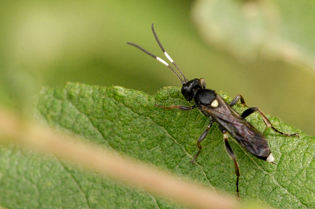 Vulgichneumon bimaculatus from Commanster, Belgian High Ardennes .